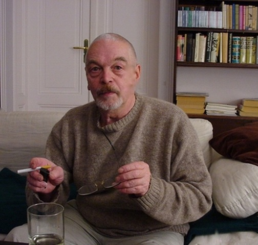 The painter Peter Hoppe, Berlin.